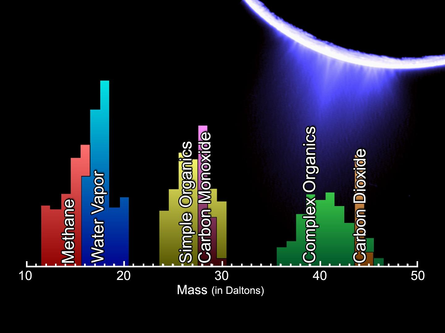 The lower panel is a mass spectrum that shows the chemical constituents sampled in Enceladus' plume by Cassini's Ion and Neutral Mass Spectrometer during its fly-through of the plume on Mar. 12, 2008. Shown are the amounts, in atomic mass per elementary charge (Daltons [Da]), of water vapor, methane, carbon monoxide, carbon dioxide, simple organics and complex organics identified in the plume.